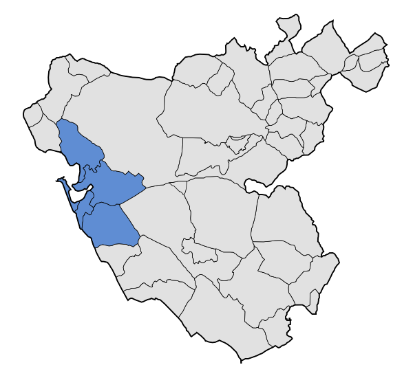 Map of Bahía de Cadiz region, on province of Cádiz